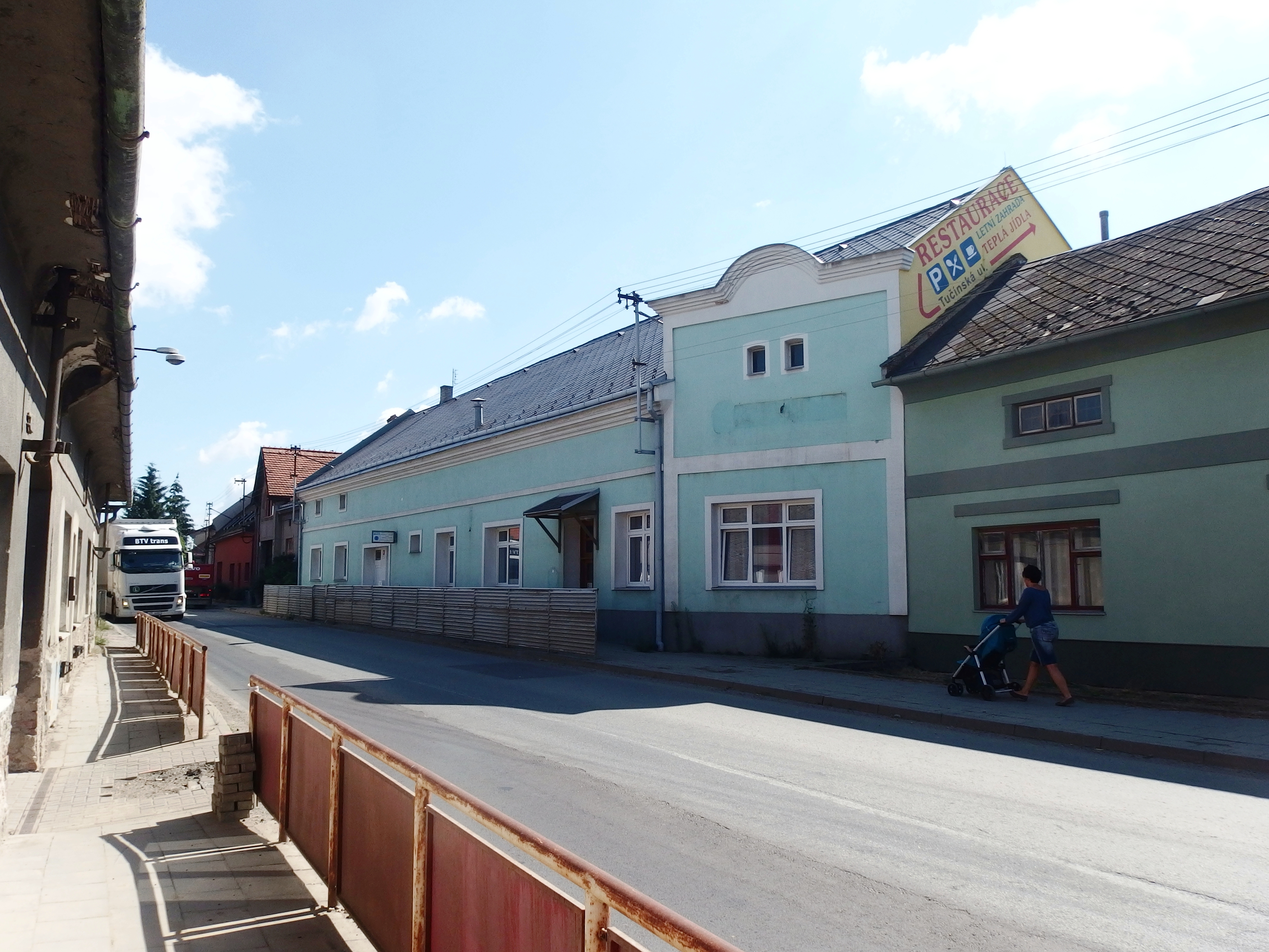 Přerov, Czech Republic, part Kozlovice.